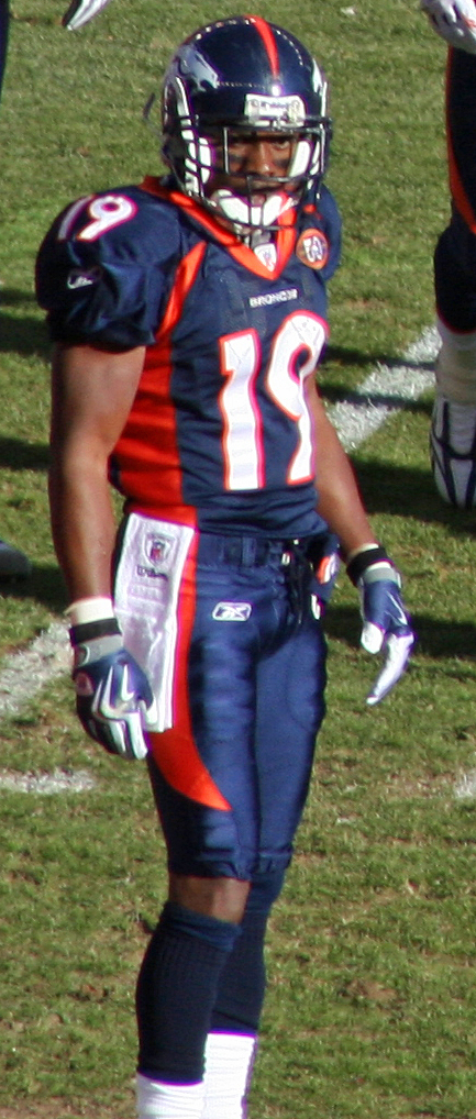 Eddie Royal, a player on the Denver Broncos American football team.